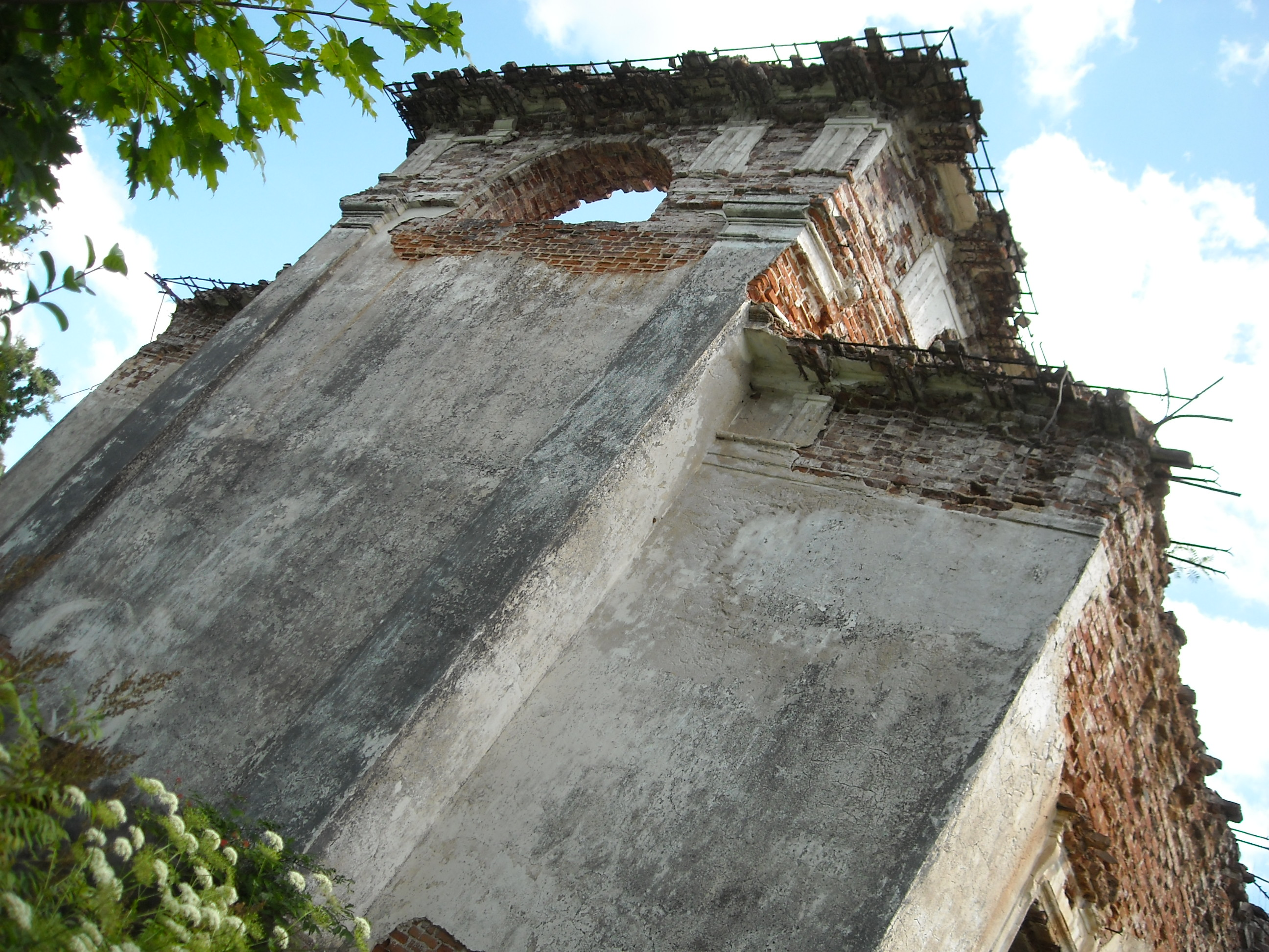 Беларуская (тарашкевіца): Рэшткі касьцёлу. в. Расна This is a photo of Belarusian heritage monument. Reference number: 512Г000455 ( WLM)